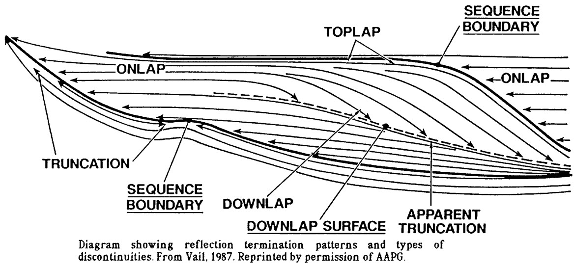 Vail Sequence